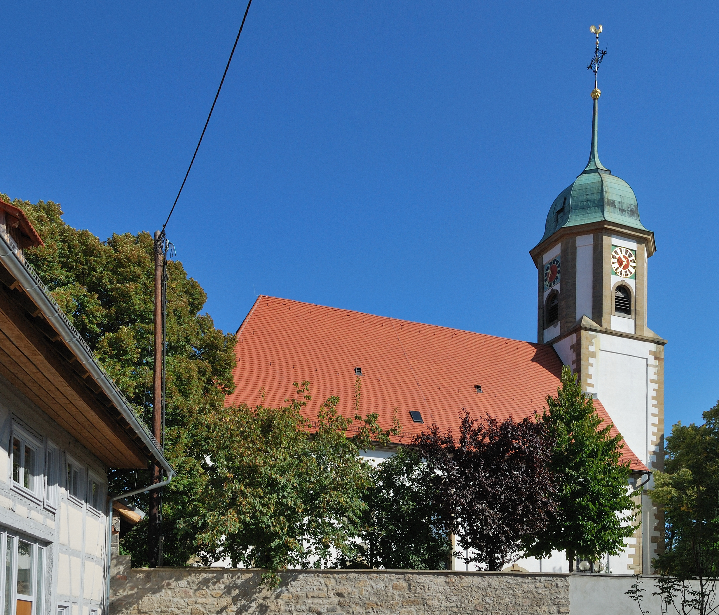 Evangelical parish church St. Peter and Paul in Heimerdingen in Baden-Württemberg in Germany. View from the South.